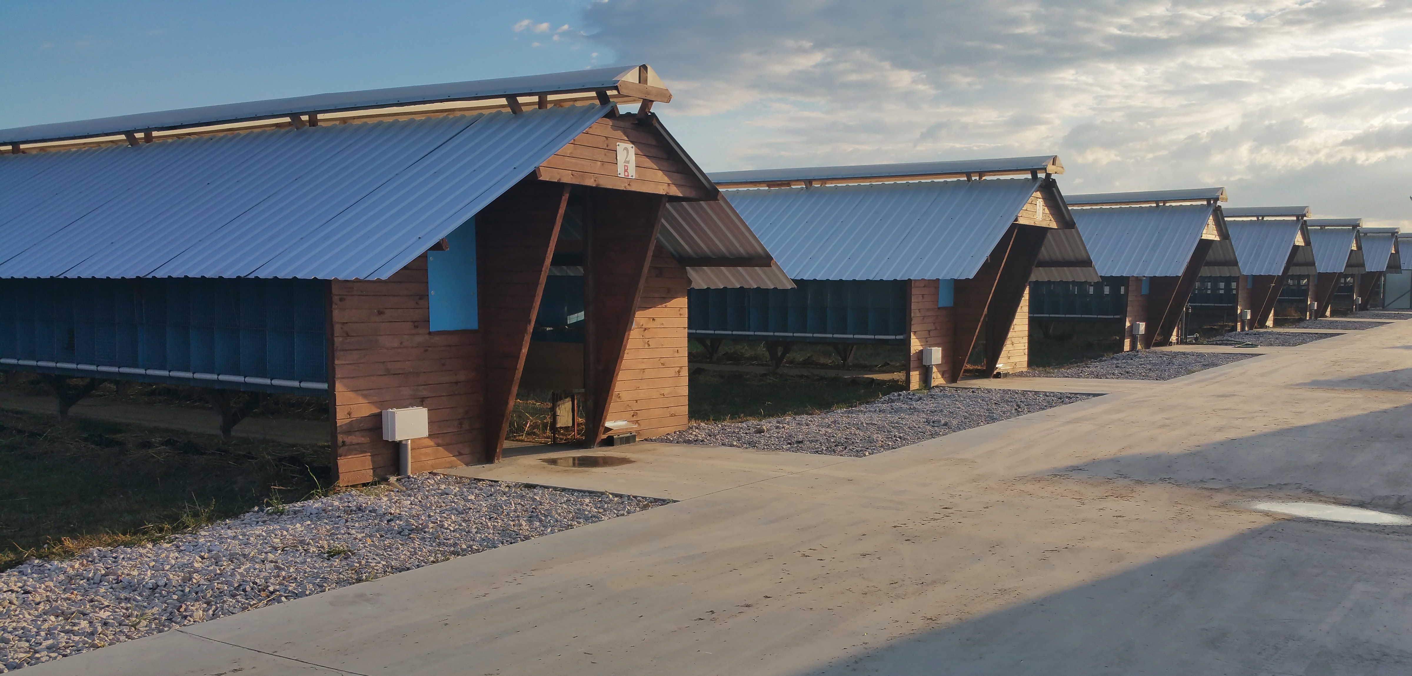 American mink farm in Poland